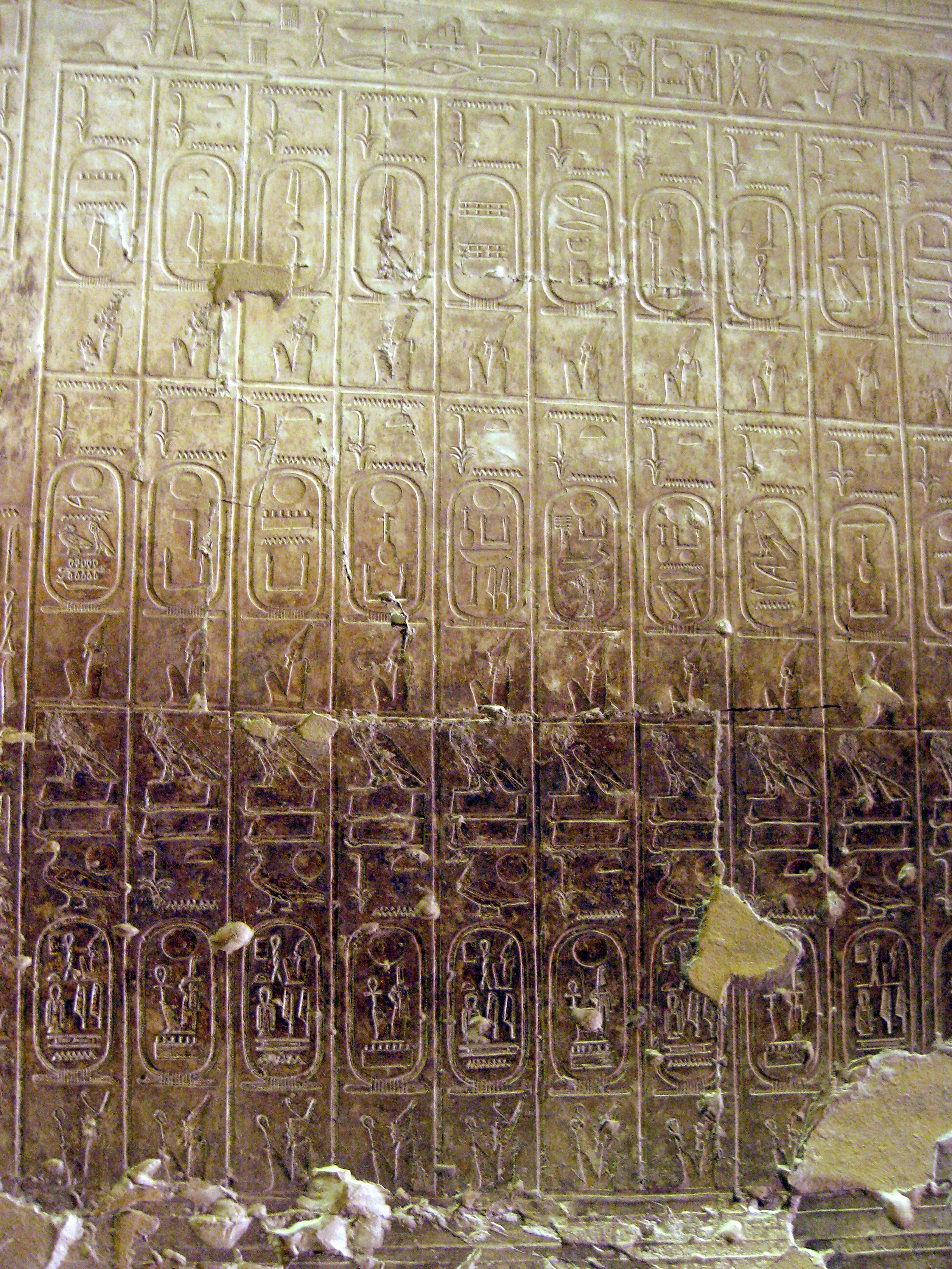 Temple of Seti I - Abydos